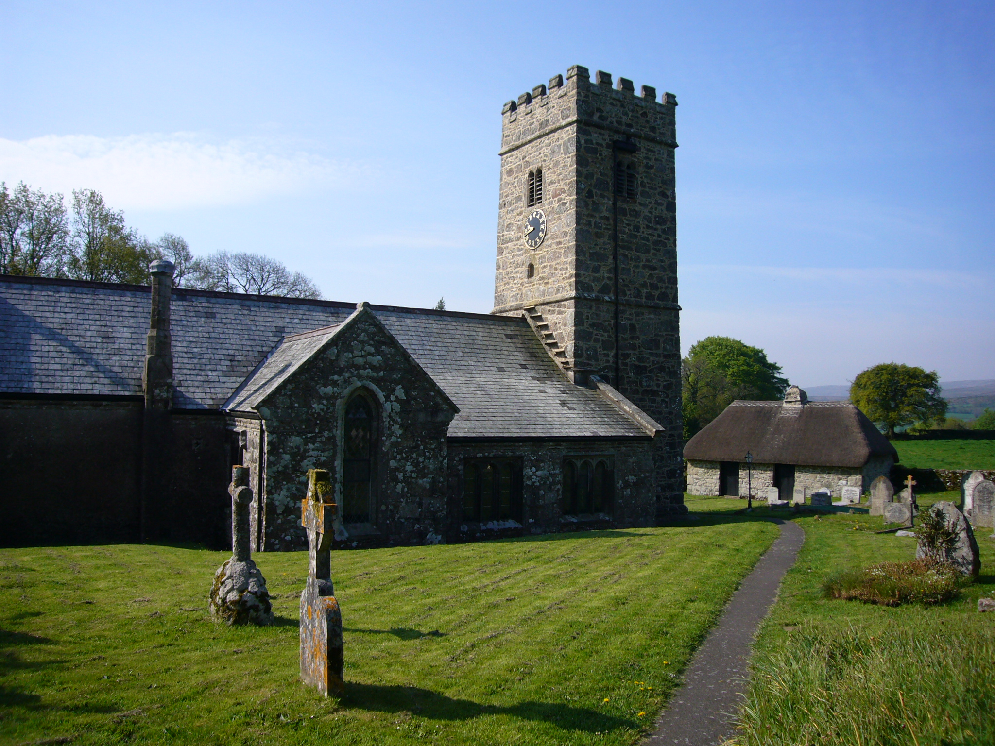 The church at Buckland in the Moor which has an unusual clock face (see this image). See Buckland in the Moor for more information.